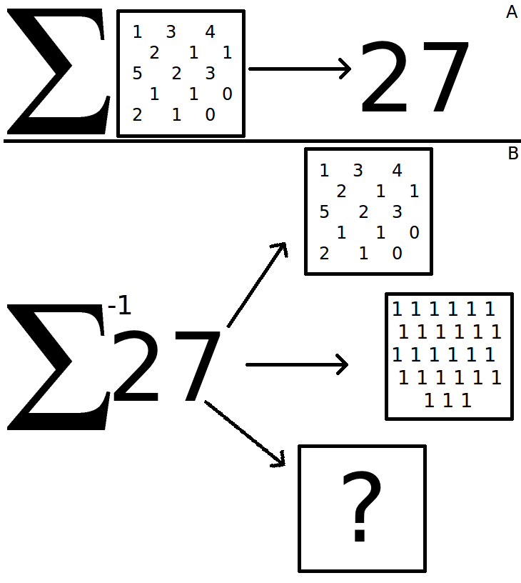 Idea of inverse problem.